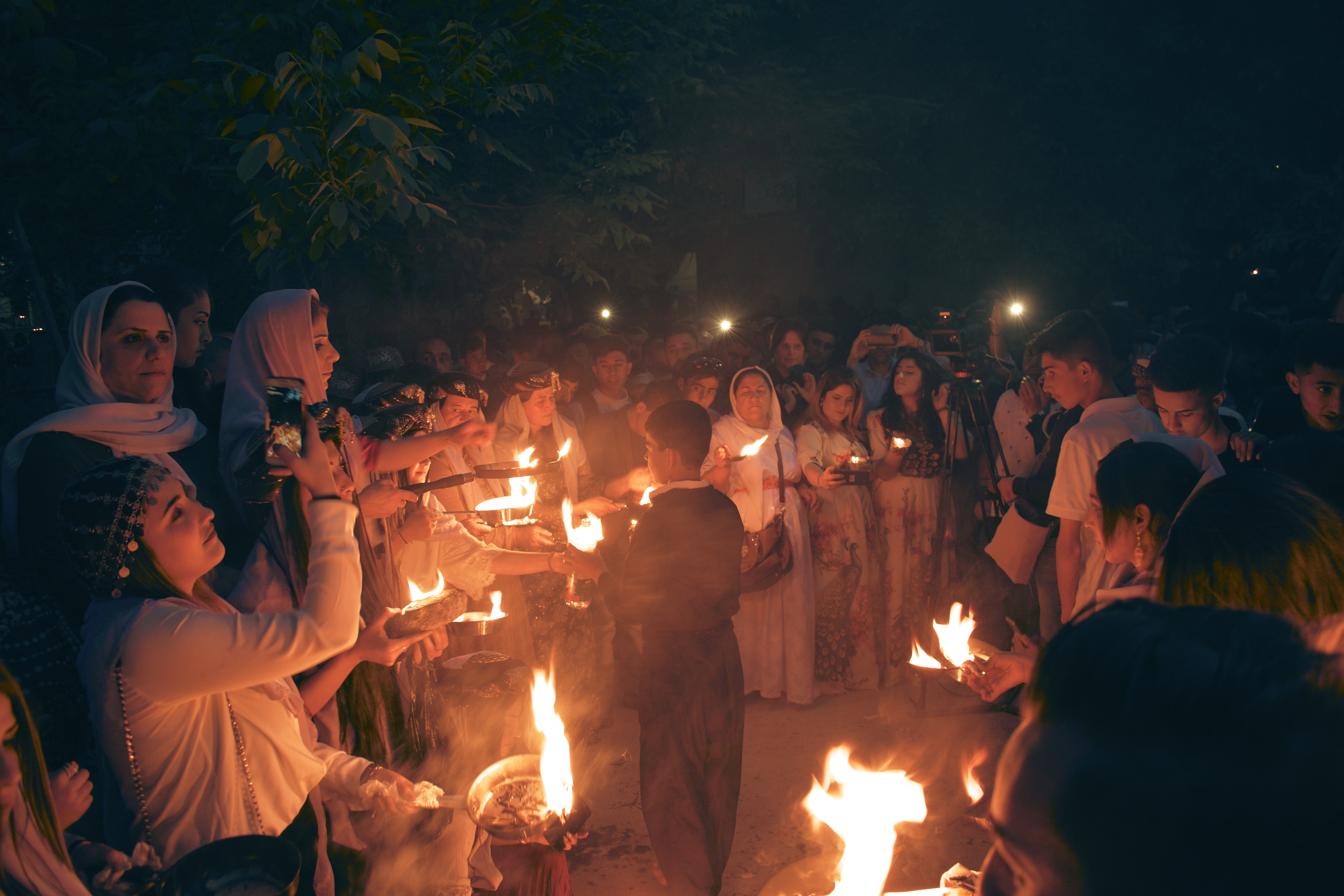 Ezidis celebrating Ezidi New Year in April 2018 at Lalish